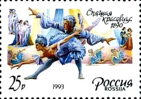 Stamp of Russia, Спящая красавица, 1993, 25 r.